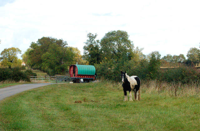 Gypsy wagon near Broadwell This horse-drawn bow-top living van regularly stays for a few days on the wide verge beside the lane from Broadwell to Long Itchington.